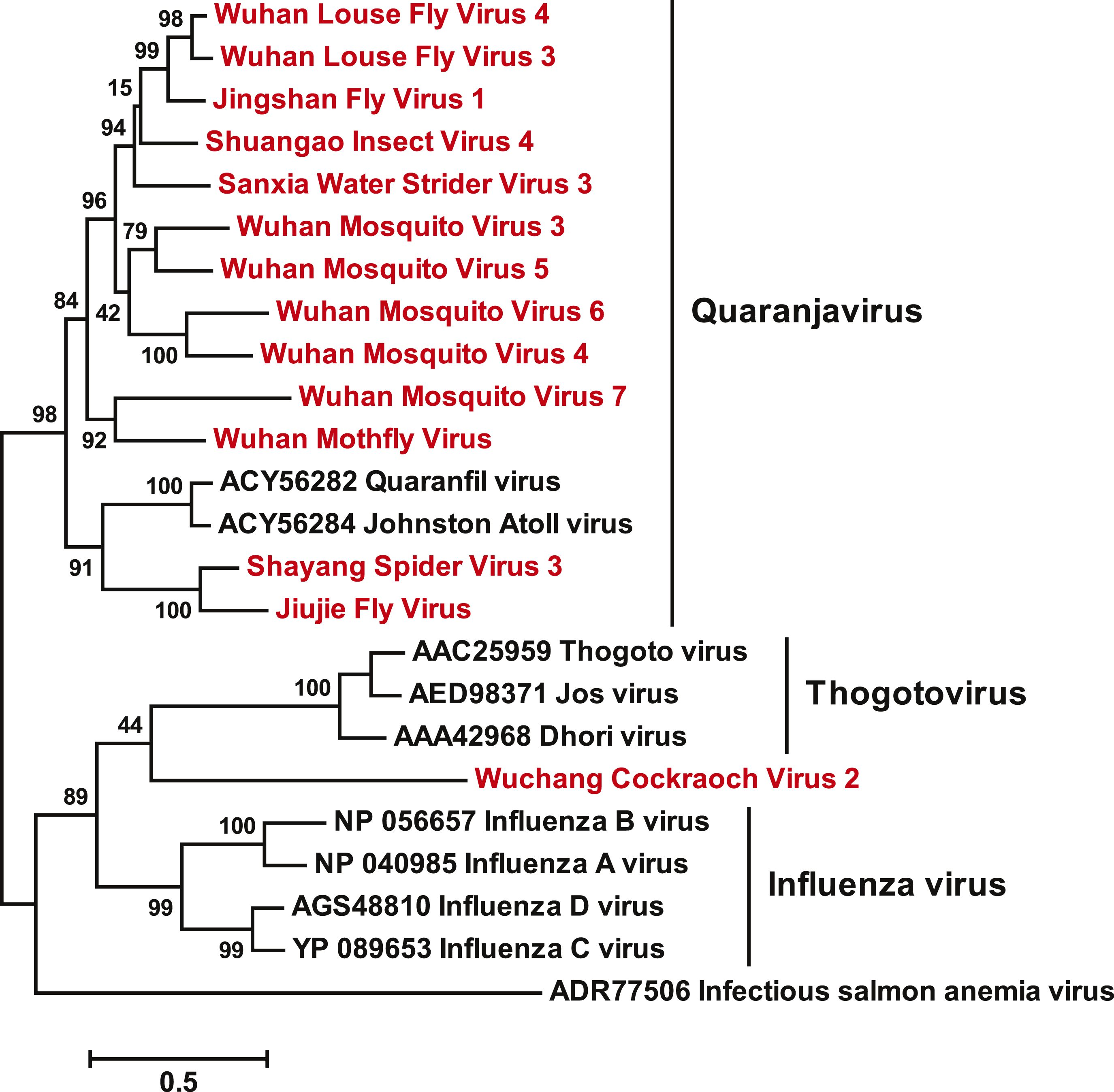 ML phylogeny for the Orthomyxoviridae-like viruses. The phylogeny is reconstructed using RdRp alignments. Statistical support from the approximate likelihood-ratio test (aLRT) is shown on each node of the tree. The names of the viruses discovered in this study are shown in red. The names of reference sequences, which contain both the GenBank accession number and the virus species name, are shown in black. The names of previously defined genera/families are shown to the right of the phylogeny. Fig 3 suppl 1from Li C-X, Shi M, Tian J-H, Lin X-D, Kang Y-J, et al. (2015), "Unprecedented genomic diversity of RNA viruses in arthropods reveals the ancestry of negative-sense RNA viruses", eLife 4: e05378